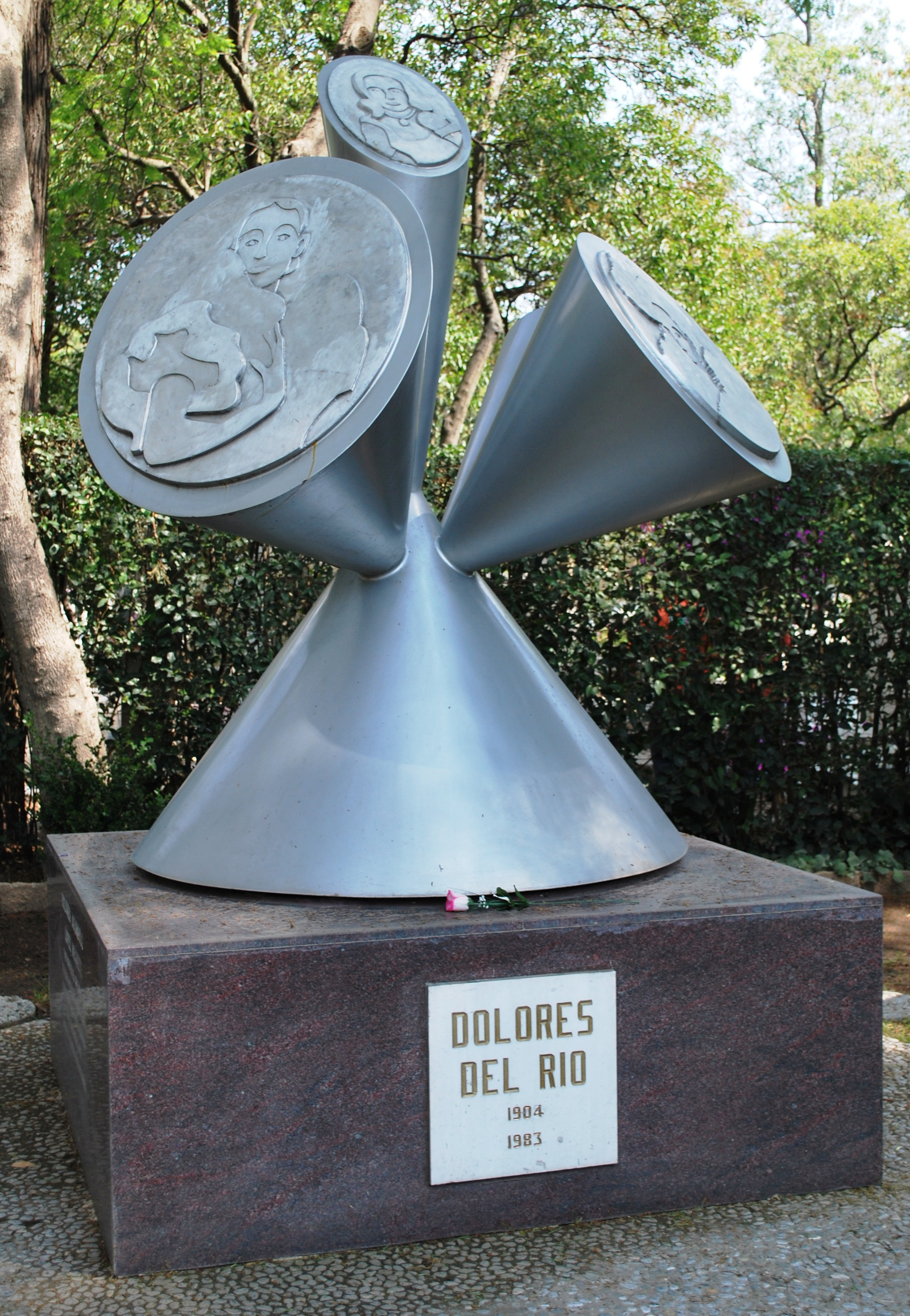 Tomb of Dolores del Rio in the Panteon Civil de Dolores cemetery in Mexico City